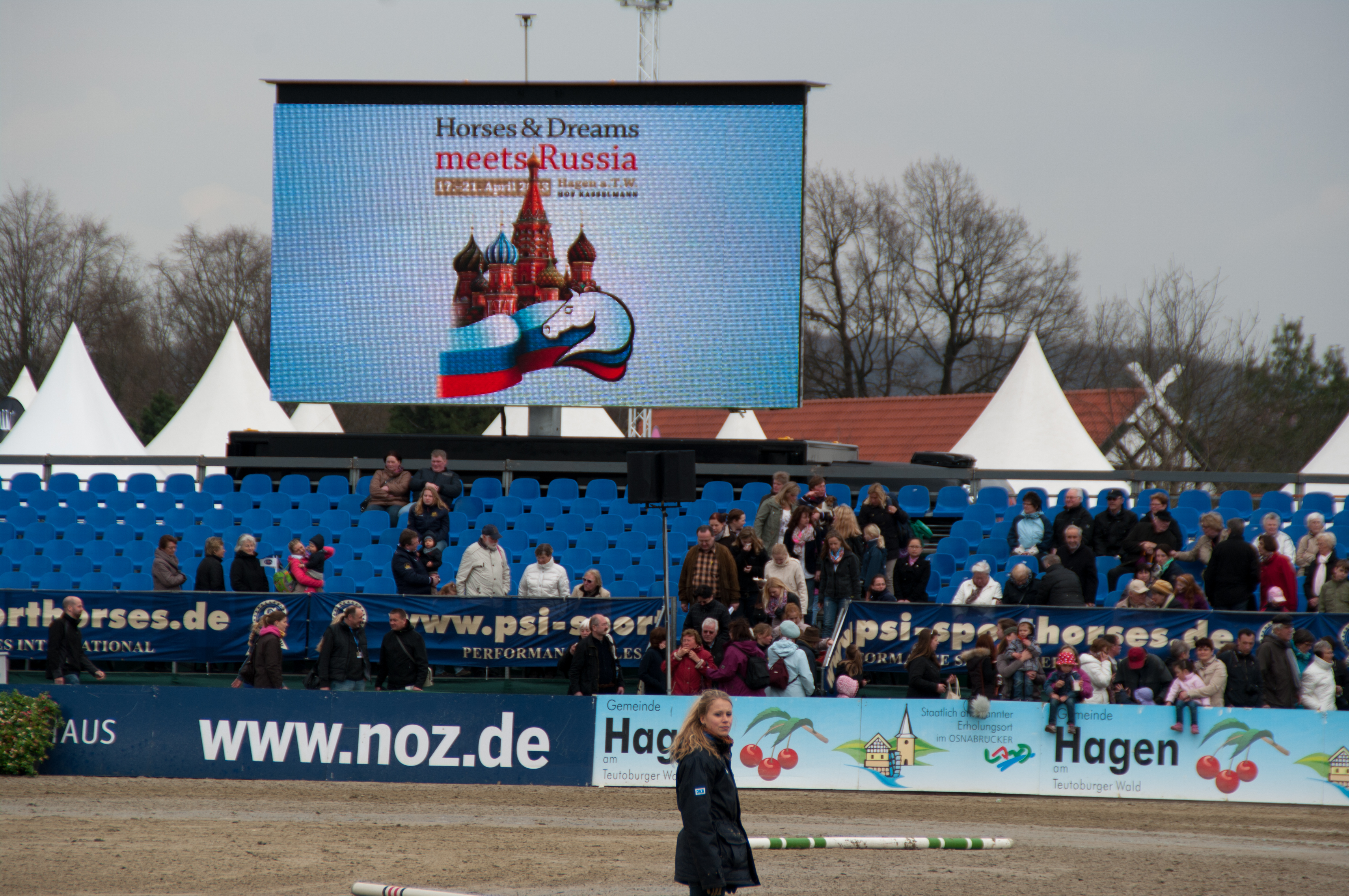 Horses & Dreams 2013